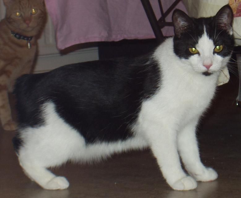 This cat was named Minus as a nickname for Minus-Tail. She is a Manx and mother to: Beatrice, Dante, Beatrice 1 week, and alternative picture This is obviously a "riser" Manx, not a "rumpy". She has a bit of cartilage at the end of the spine causing a tail bump (though not a full stump) to rise from the back. — SMcCandlish [talk] [cont] ‹(-¿-)› 04:06, 15 October 2011 (UTC)